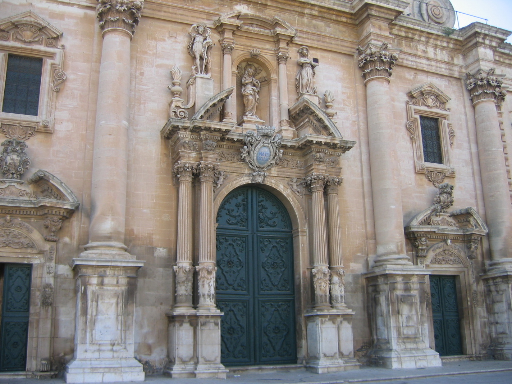 Author : Urban Description : Ragusa Nova, Cathédrale, Ragusa, Italy, Sicilia Body : Canon Powershot A80 Date : August, 2005